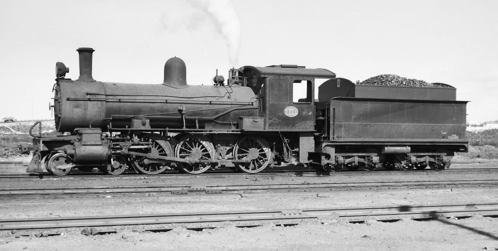 Ex Cape Government Railways Class 6 538 (4-6-0)South African Railways Class 6J 646 (4-6-0)Location: Sydenham Loco